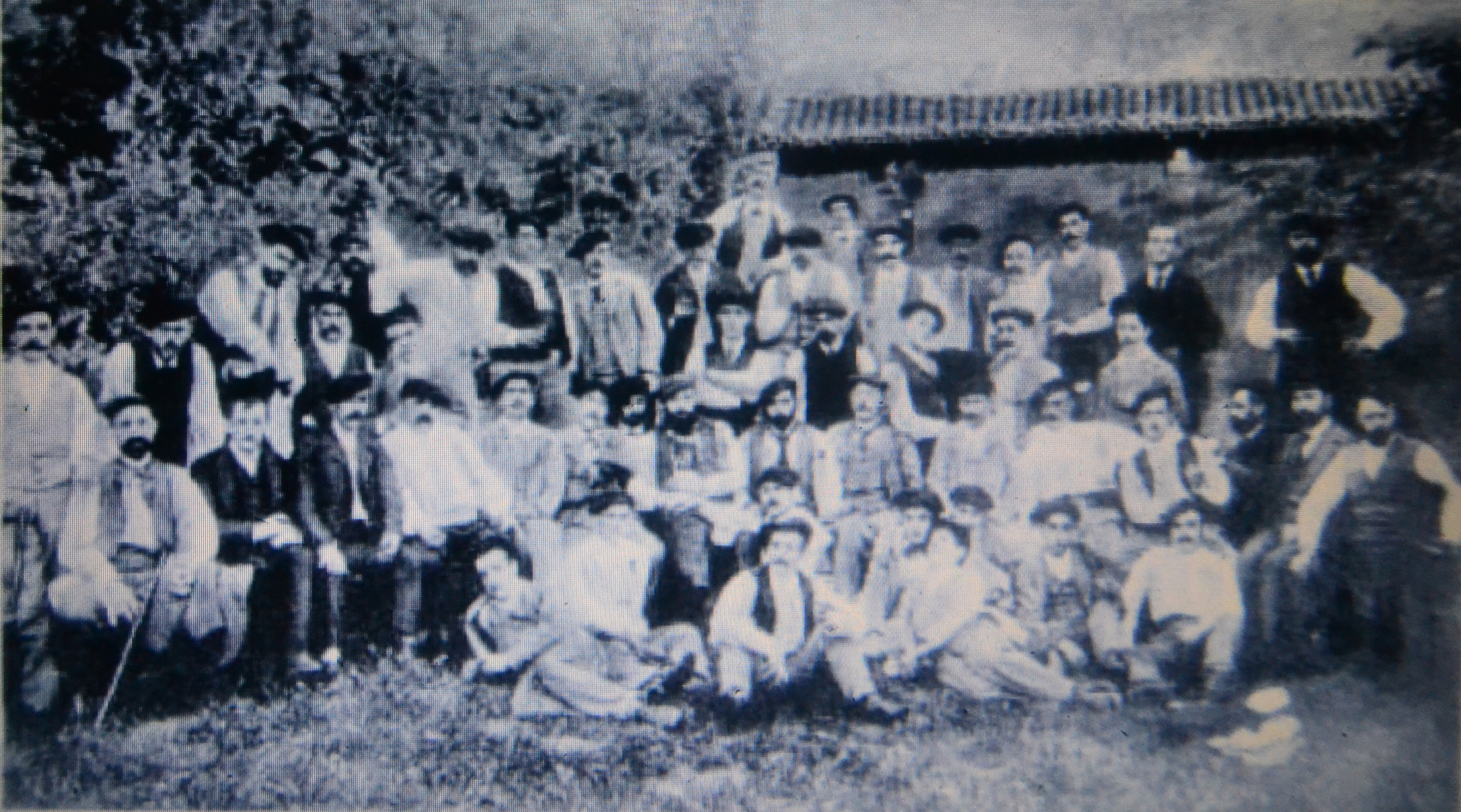 Photo of Arriaga's meeting, in the midle are Sabin and Luis Arana Goiri brothers. 8th of July, 1894.